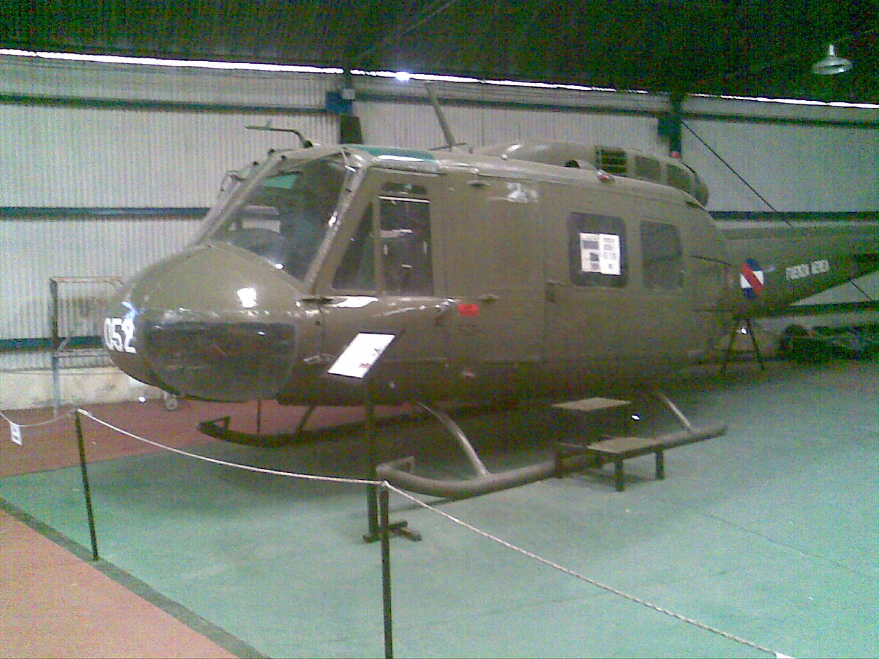 UH-1 Iroquis in Uruguayan Air Force Aeronautic Museum in Montevideo, Uruguay.